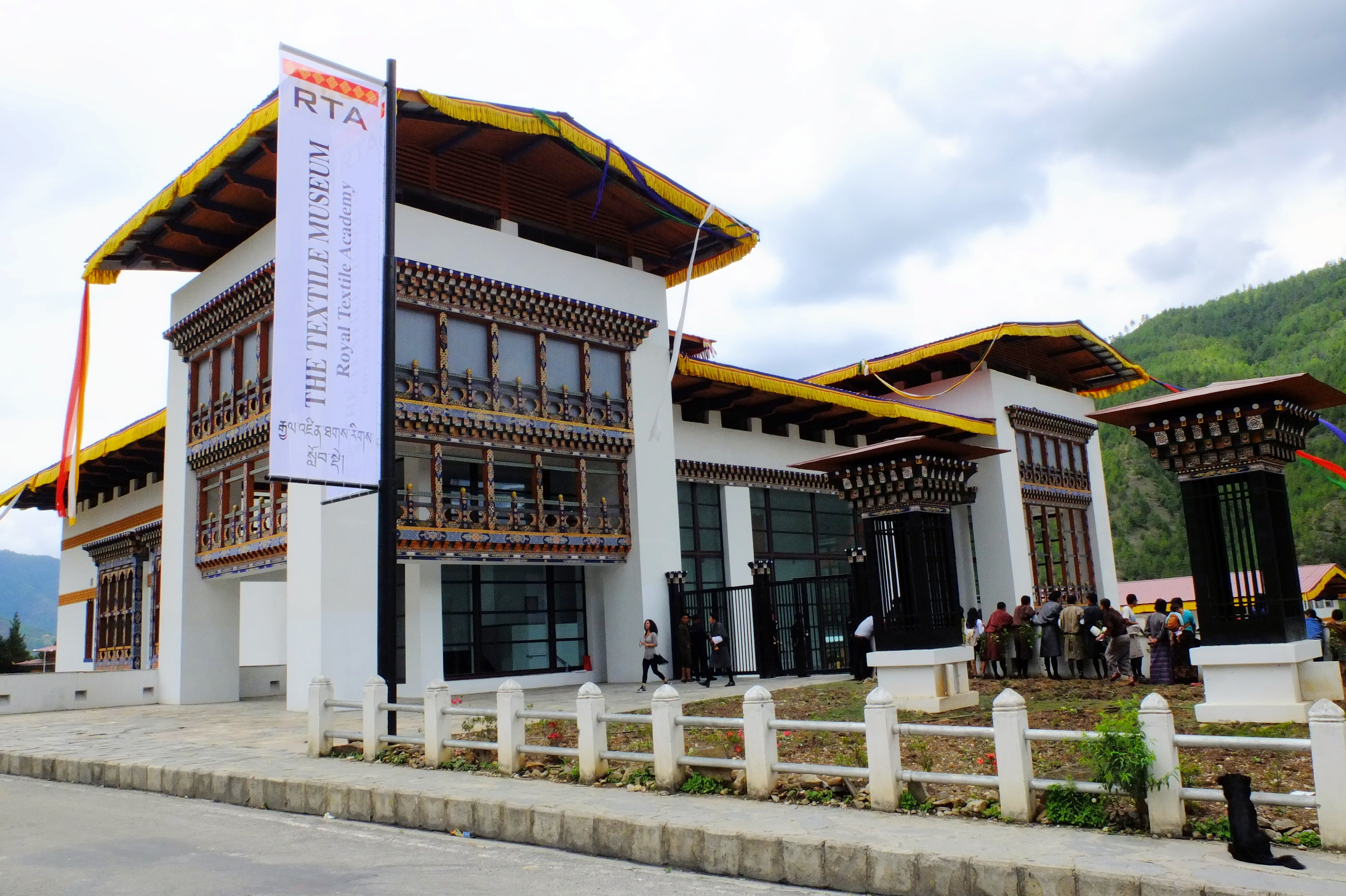 Royal Textile Academy of Bhutan. Chubachu, Thimphu, Bhutan